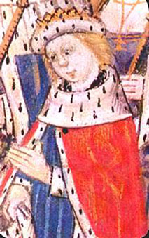 Edward V of England, from [1]